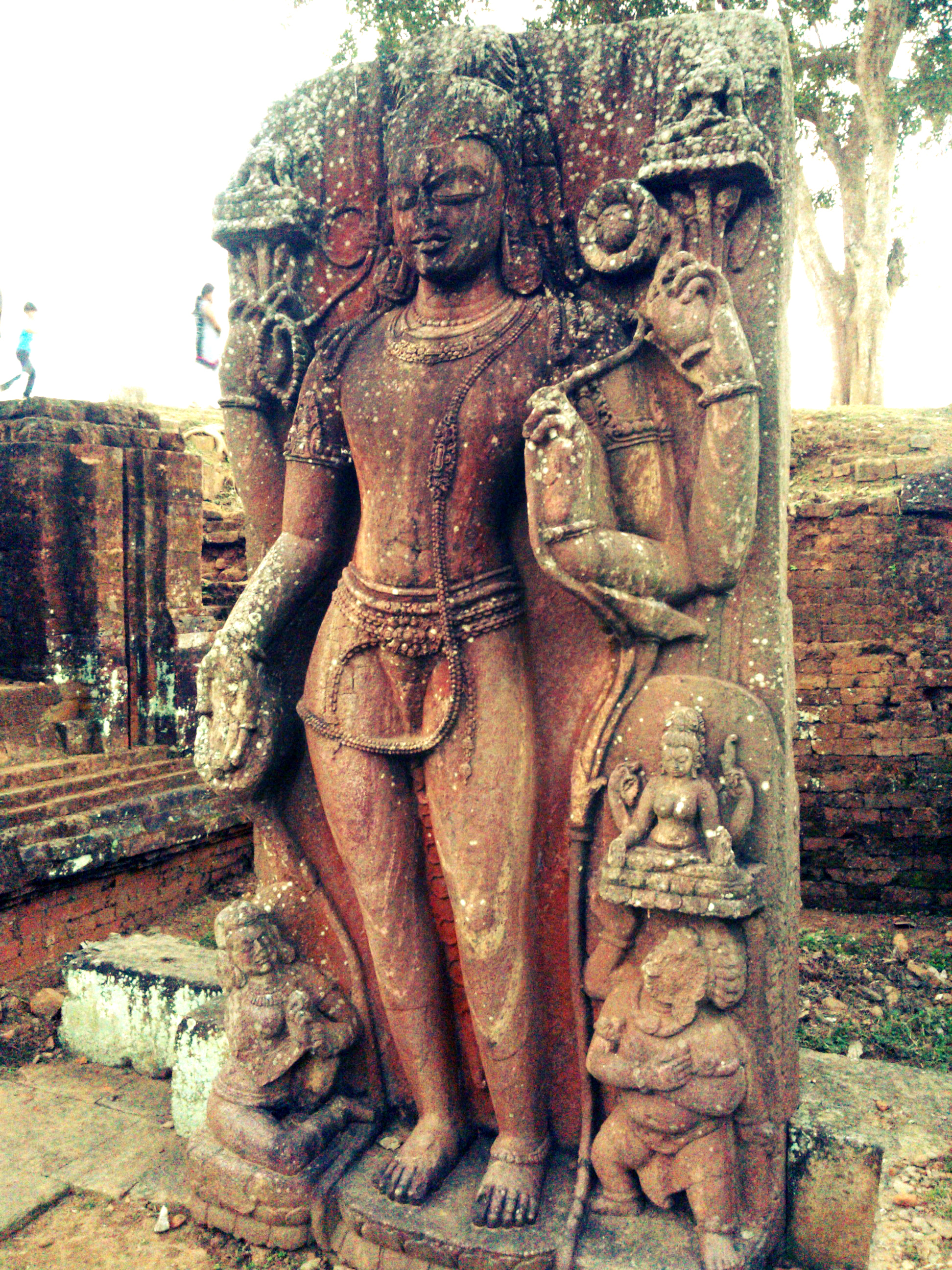 Statue at Ratnagiri